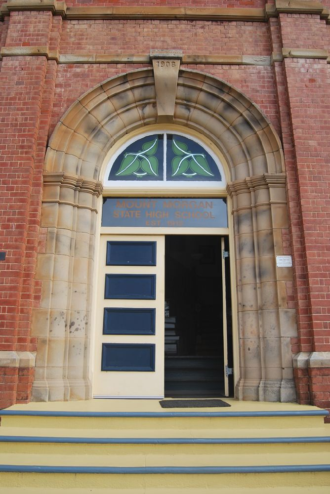 Former Technical College Building, main entrance, from E (2015)